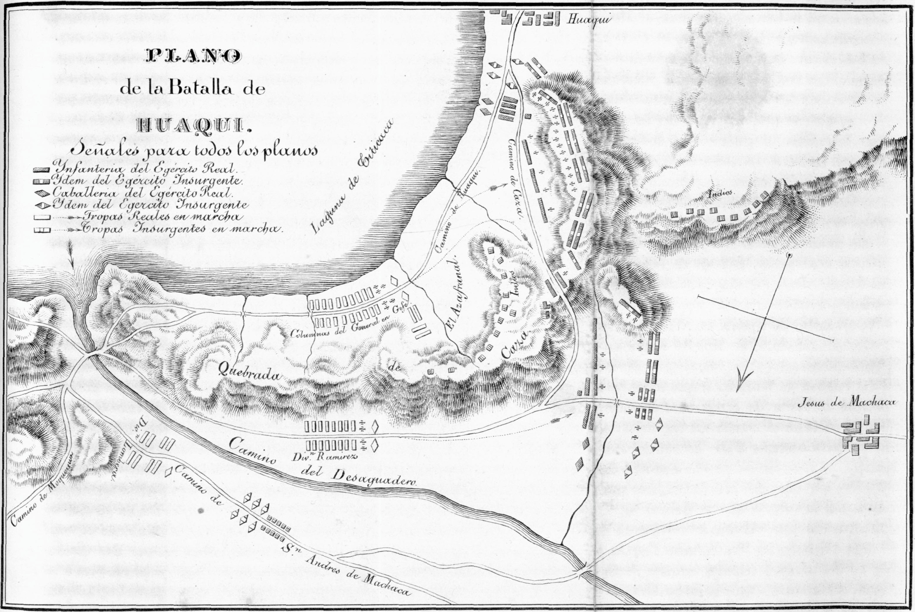 Crude sketch of the Battle of Huaqui (1811).